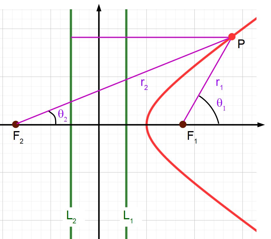 Twin set of focus and directrix for an hyperbola